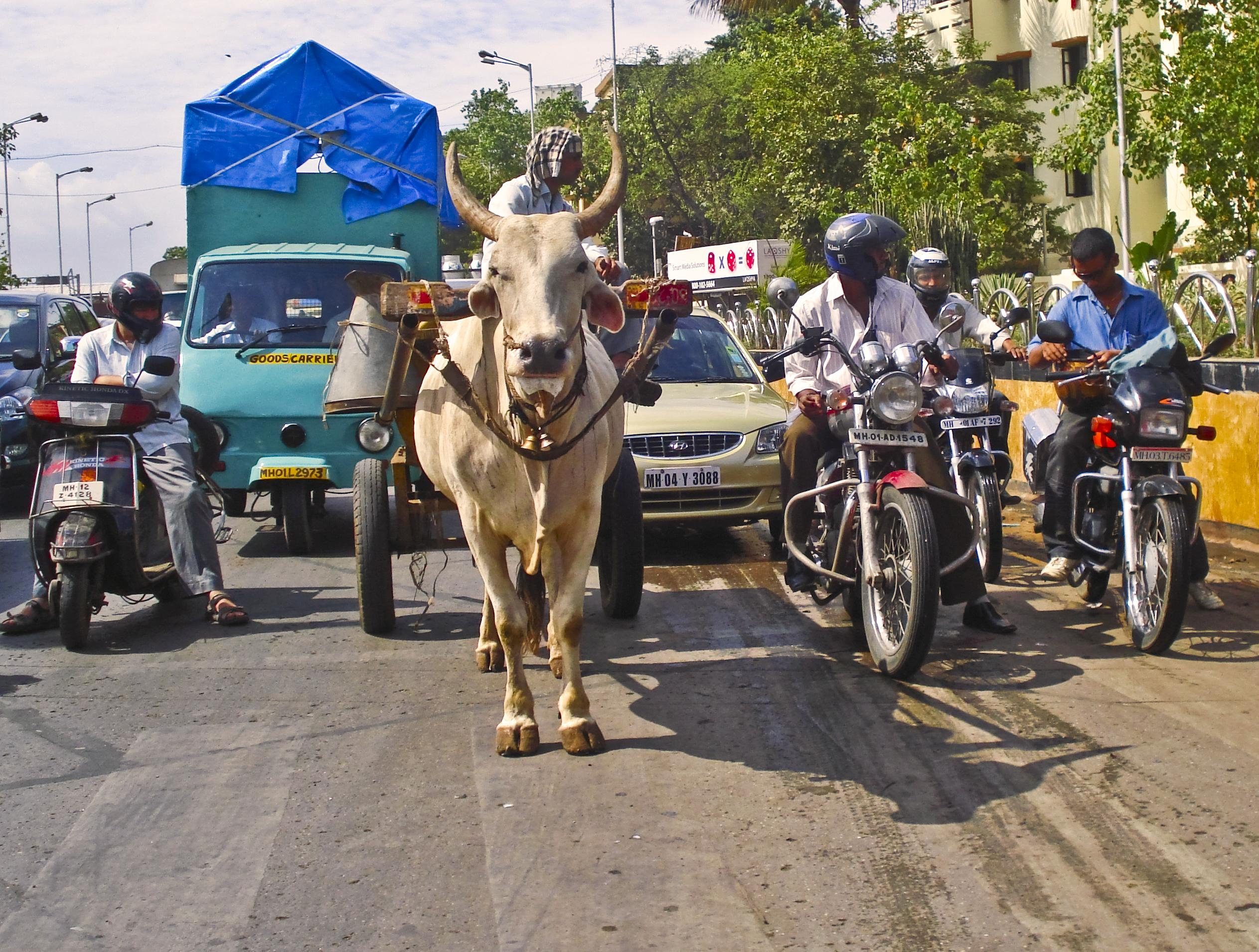 Various forms of transportation in Mumbai.